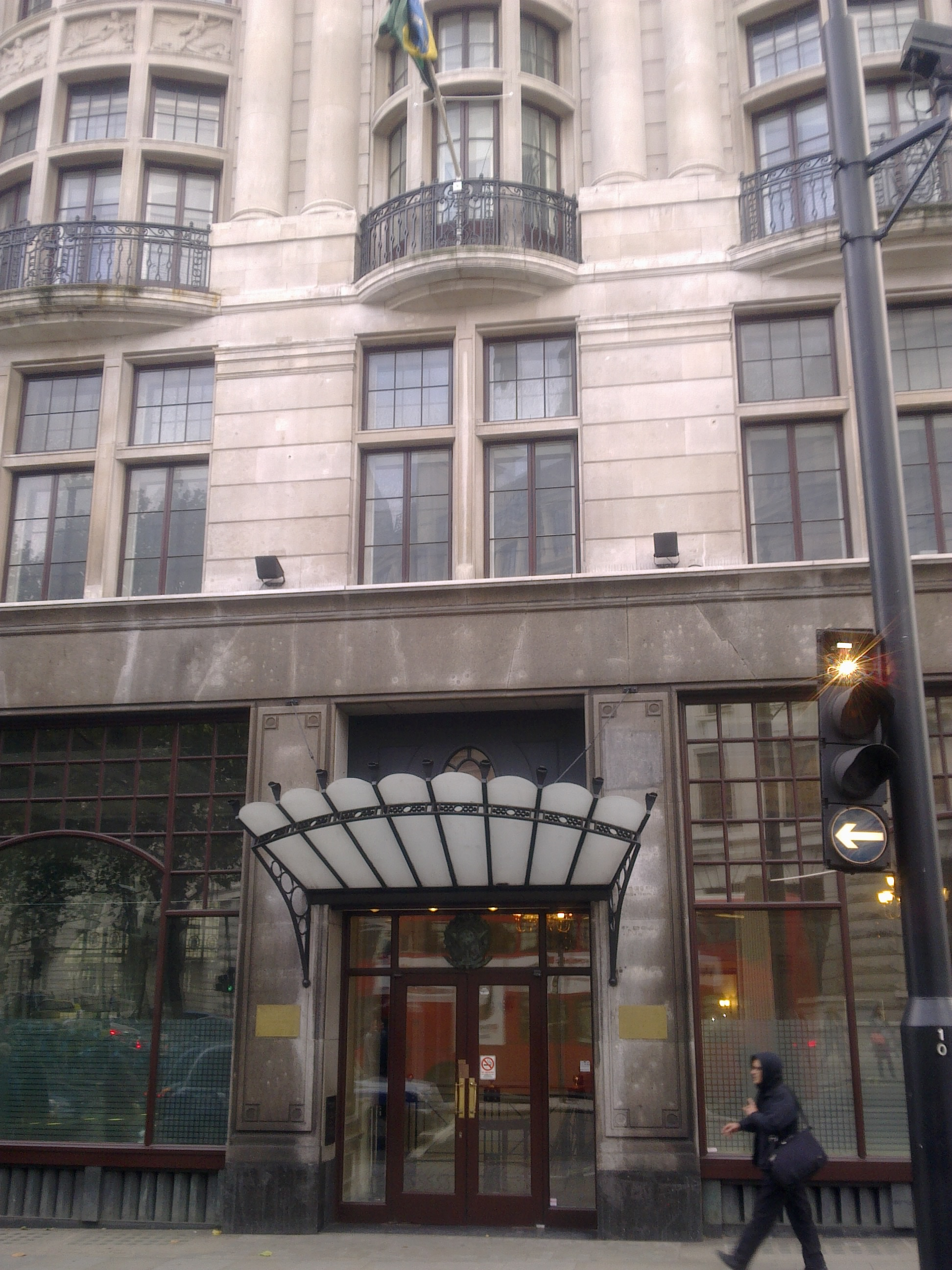 Embassy of Brazil in London 1